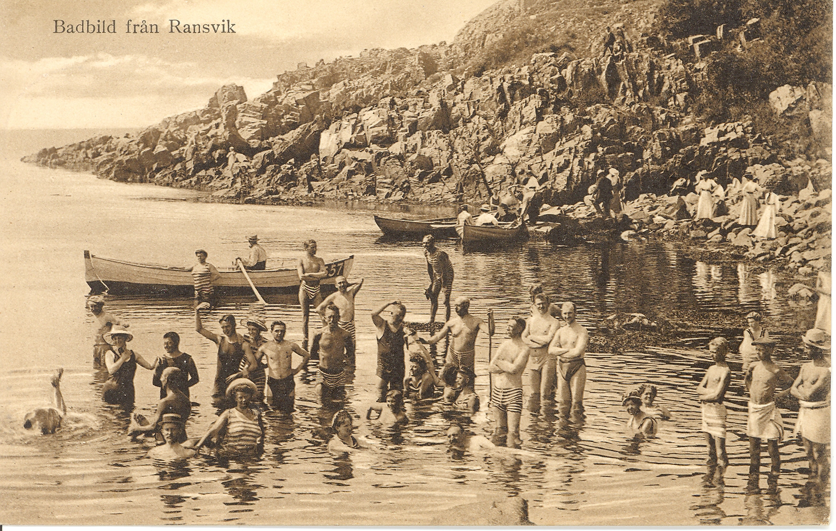 Bathing life at Ransvik, Mölle, Sweden